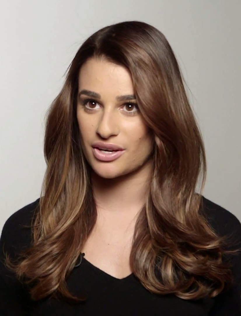 Lea Michele, L'oréal Paris spokesperson